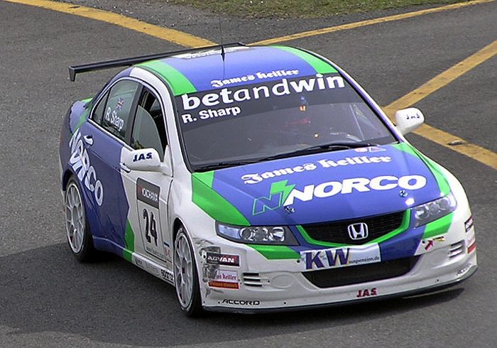 World Touring Car Championship 2006: Ryan Sharp (JAS Motorsport) - Honda Accord Euro R